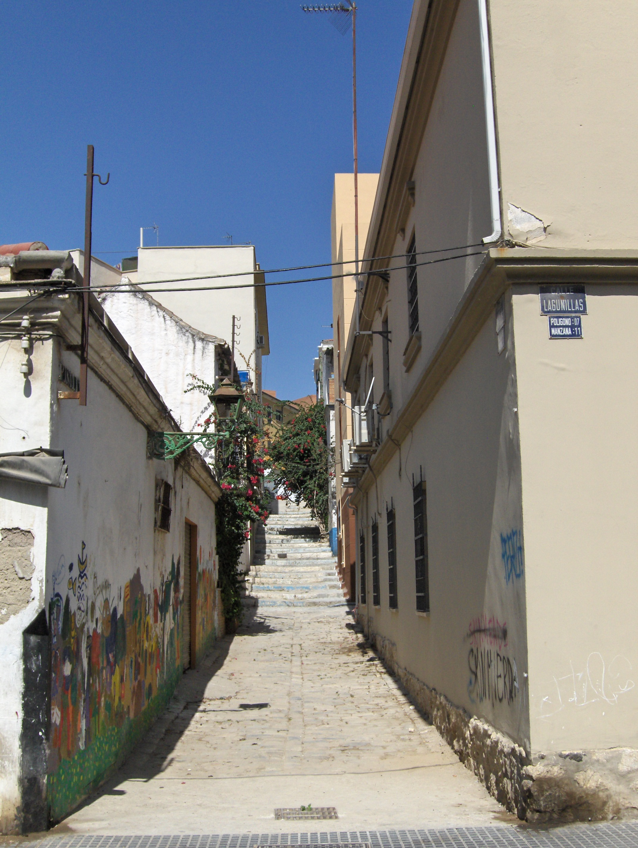 Street in Lagunillas, Málaga, España.